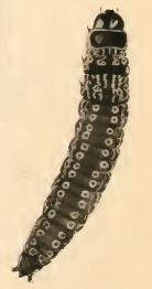 Stainton’s Natural History of the Tineina (1855–1873): Dichomeris limosellus